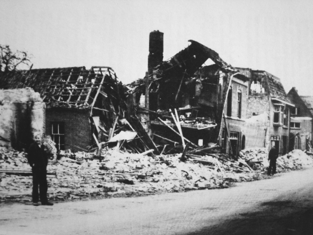 Bombs on Aalten, dijkstraat 24 march, at area by Schonewille and te Linde